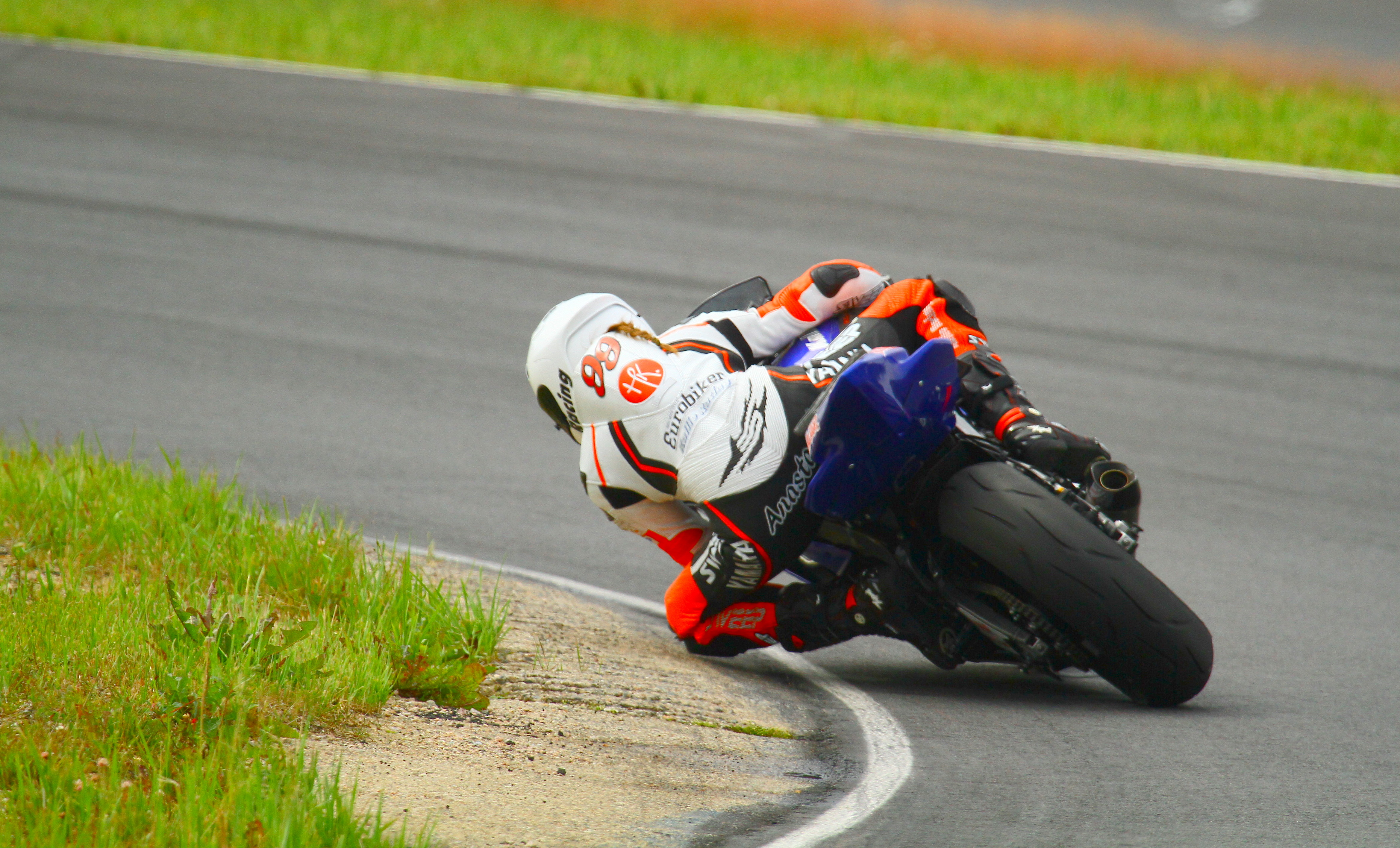 Anastassia racing on Botniaring, Finland